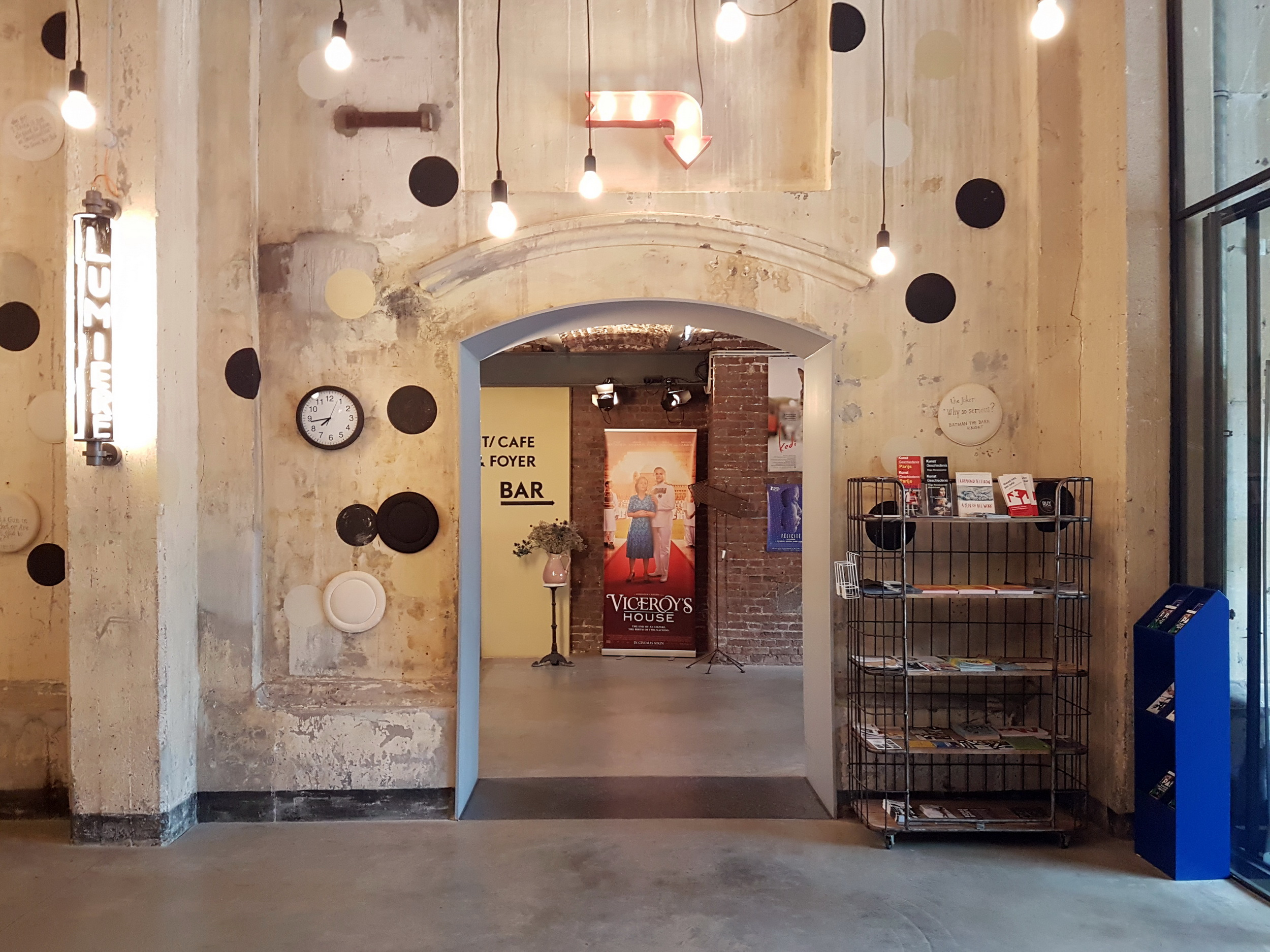 Interior view of Filmhuis Lumière, an arthouse cinema in Maastricht, the Netherlands. In 2016 the cinema moved to the former power station of Sphinx potteries.The main entrance (shown here), box office, meeting rooms and offices are in the Hennebique building, which also features a grand staircase leading to an open space designated for open air film screenings. The 6 cinemas have been built into the Ketelhuis (where the steam engines stood). The generator house, the Elektriciteitscentrale, is now a café and restaurant with an outdoor café facing the inner harbour Bassin. The area around Bassin is being developed as a cultural and leisure quarter with two cinemas, a pop music venue, and various cultural organizations, mainly based in disused factories.